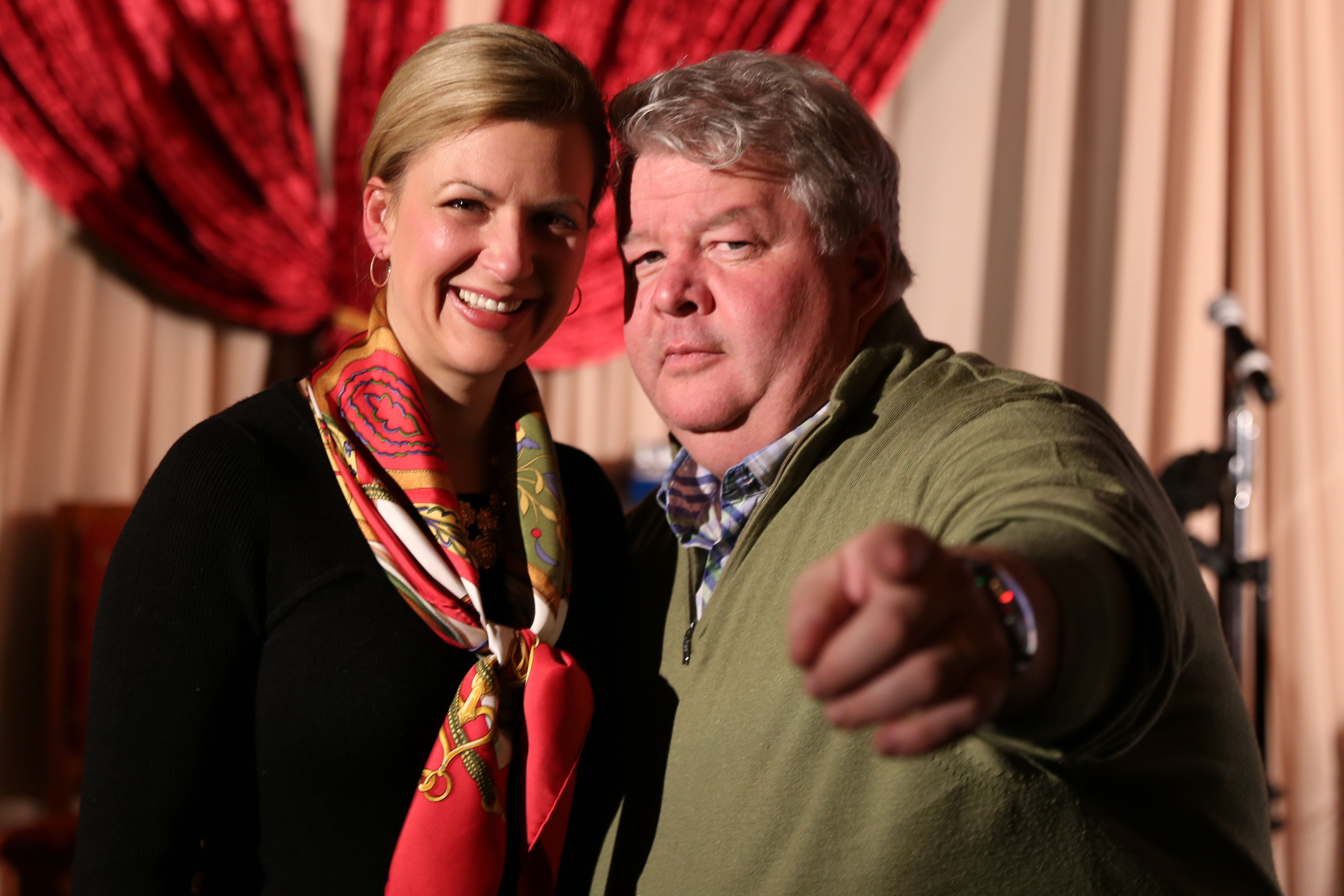 Christmas in November